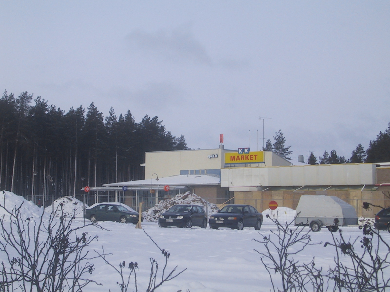 A K-market supermarket in Kempele, Finland